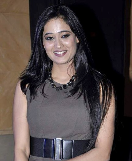 Shweta celebrates her daughter's birthday